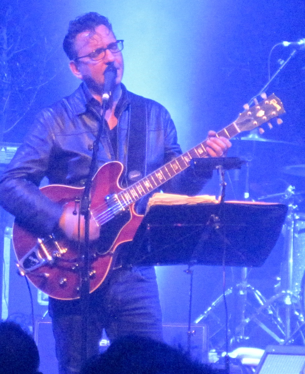 Richard Hawley performing at the Cambridge Corn Exchange, 22nd February 2013